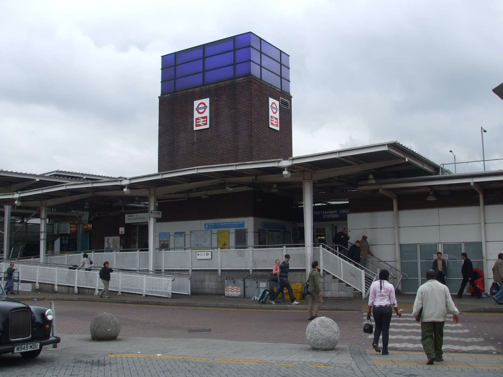 Tottenham Hale railway and tube station